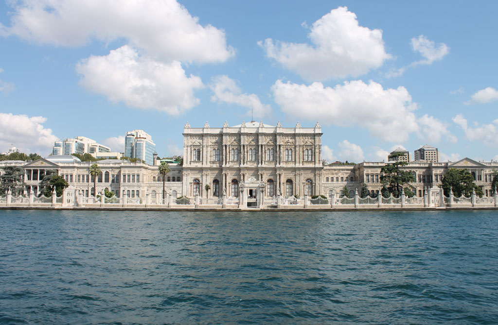 Picture taken from the Bosphorus where the Dolmabahçe Palace is shown.